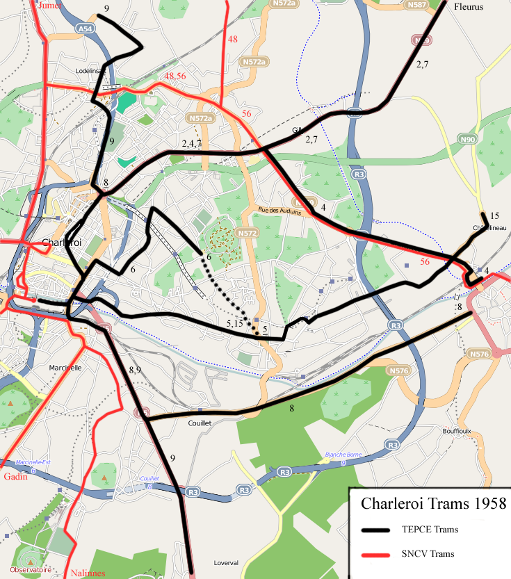 Map of the TEPCE citytram network (black) and the SNCV tram network (red) around the end of the 1950s